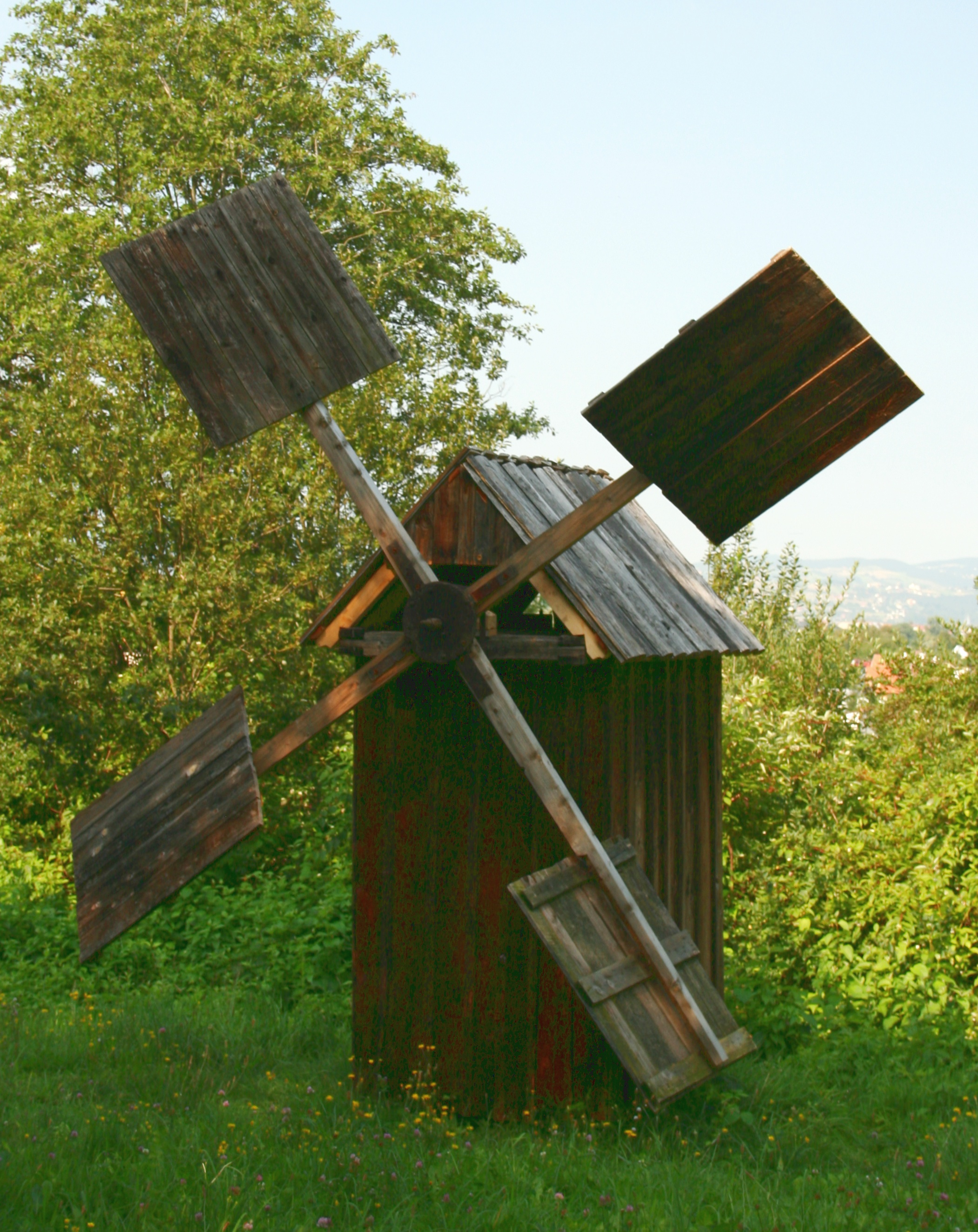 Skansen in Nowy Sącz, Poland